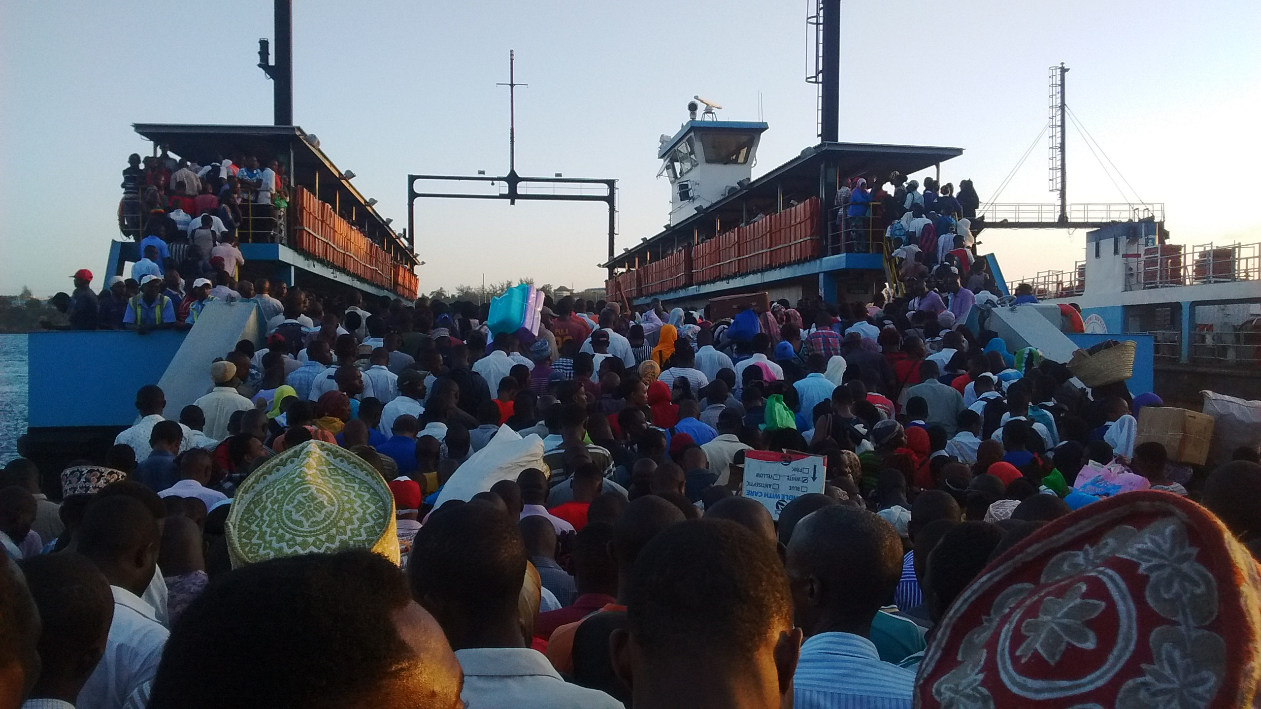 People coming from work in Mombasa center to Likoni, overloading the ferry This is an image of "African people at work" from Kenya